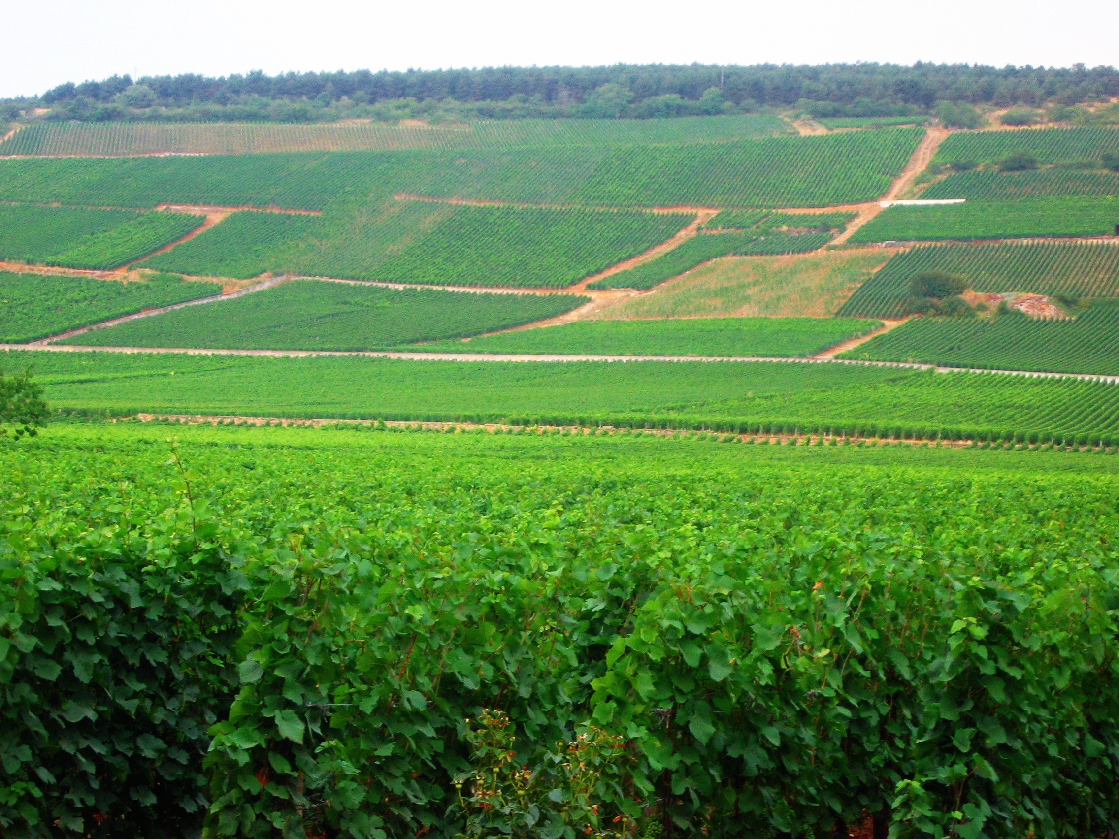 Vineyards in Vosne-Romanée, Burgundy, France